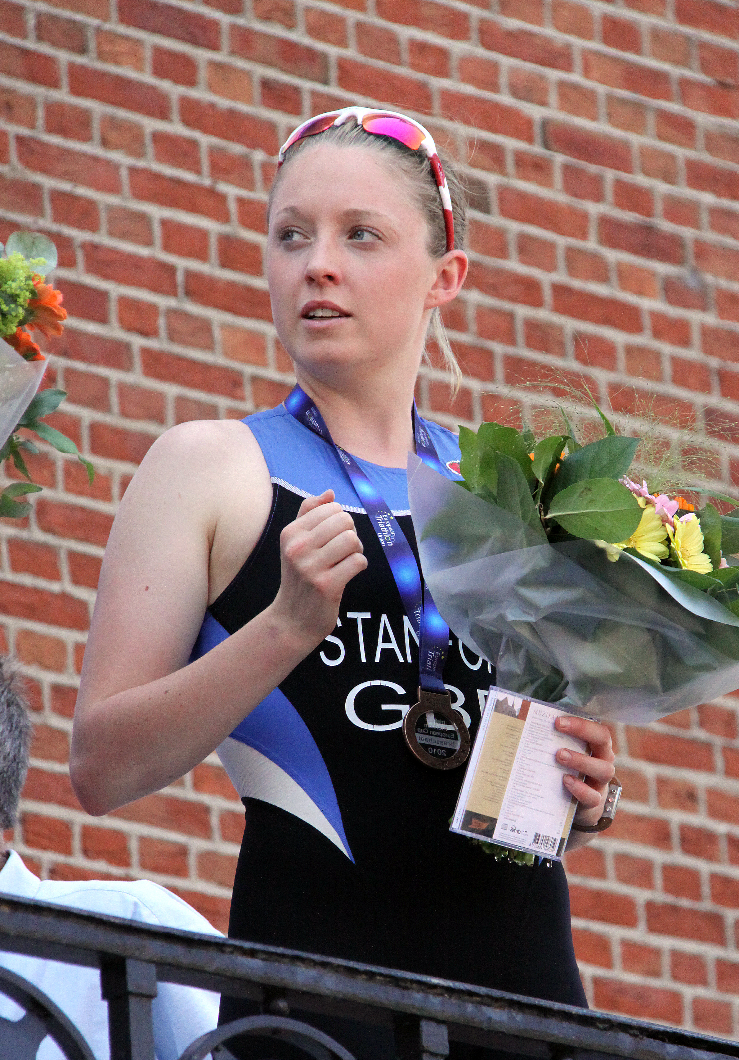 Non Stanford with the bronze medal at the Premium European Cup in Brasschaat, 2010.